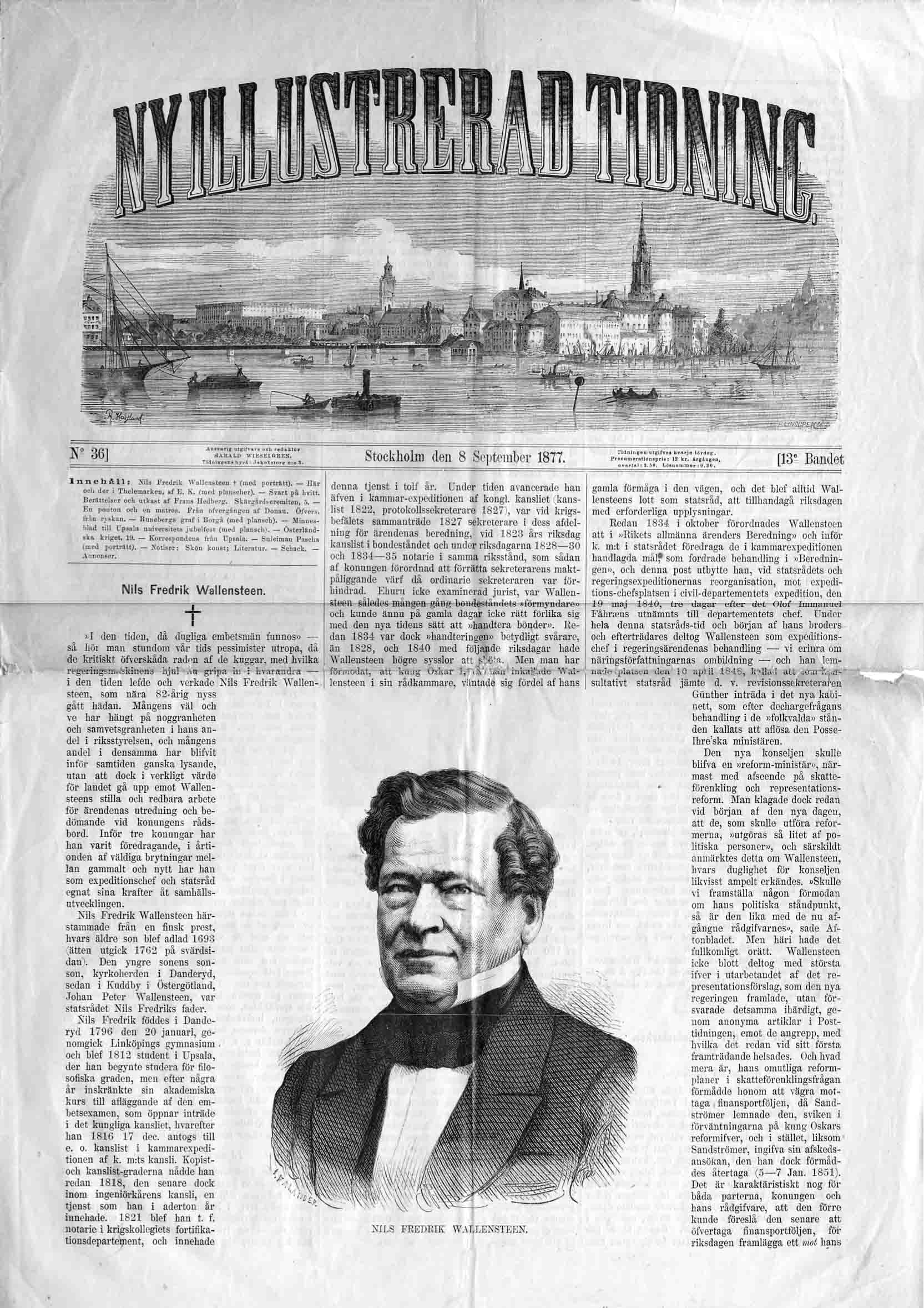 Front page of the Swedish magazine "Ny Illustrerad Tidning" from 1877